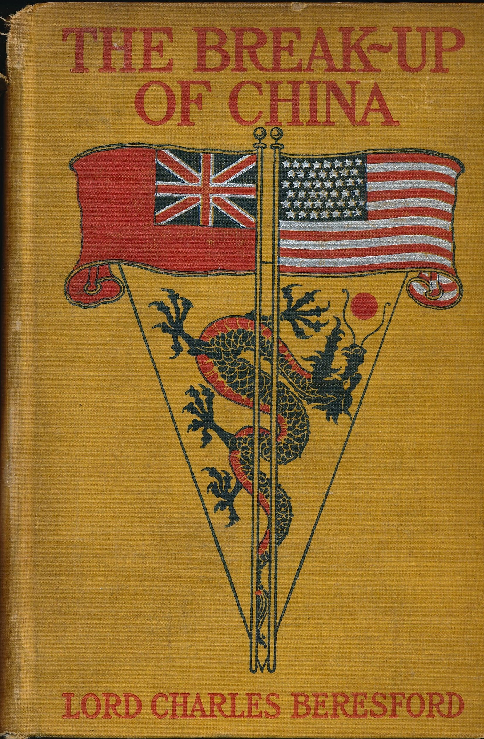 Cover of The Break-Up of China, 1st ed